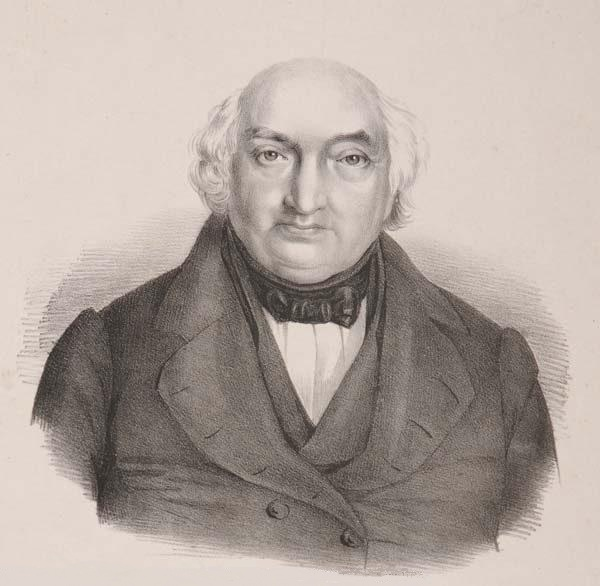 Georg Löck (1782-1858), German jurist and politician in Holstein